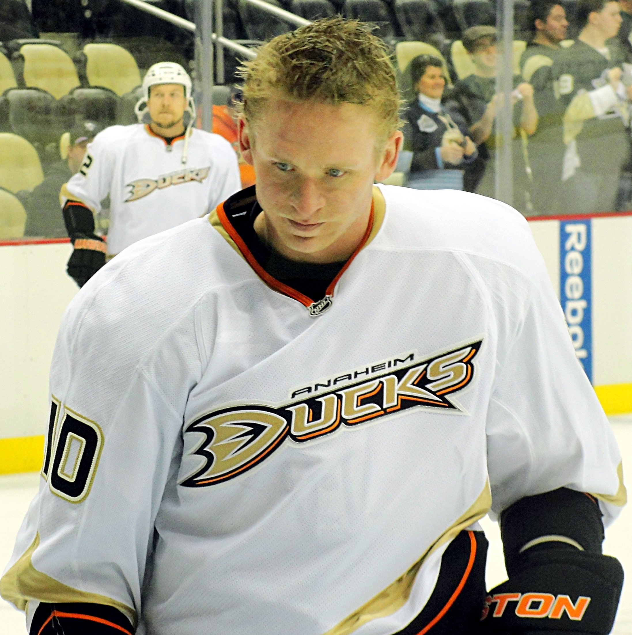 Corey Perry of the Anaheim Ducks skates against the Pittsburgh Penguins, February 15, 2012 at Consol Energy Center in Pittsburgh, PA.